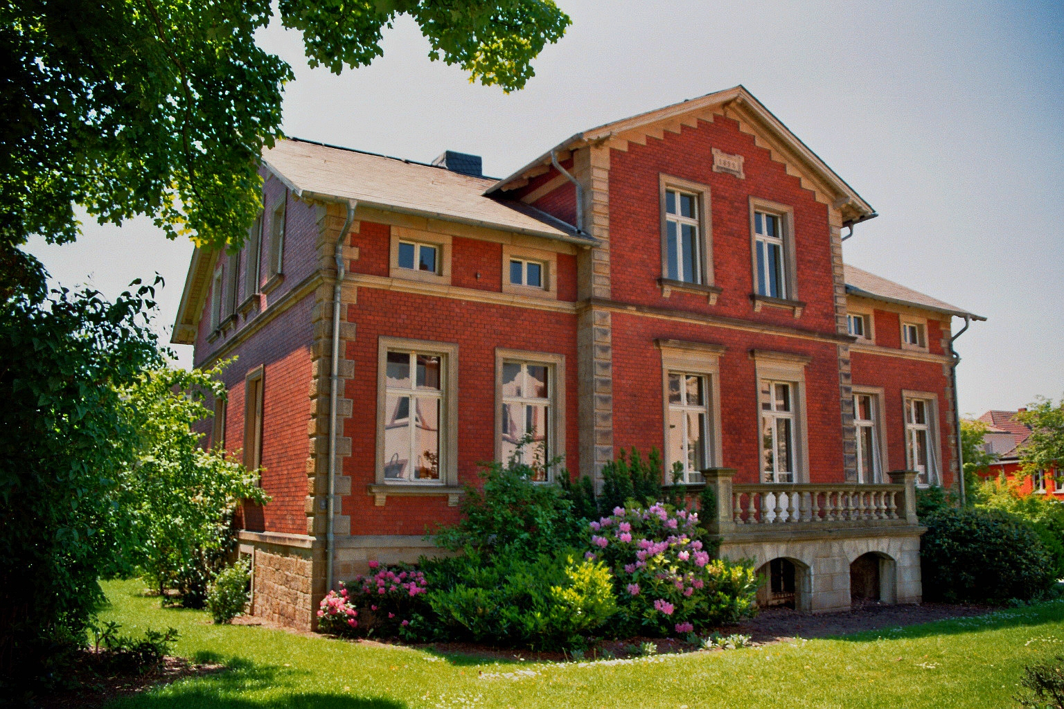 City museum Haus Herold of Ibbenbüren, Kreis Steinfurt, North Rhine-Westphalia, Germany.